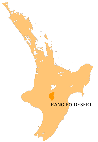 Location map of Rangipo Desert, North Island Volcanic Plateau, North Island, New Zealand